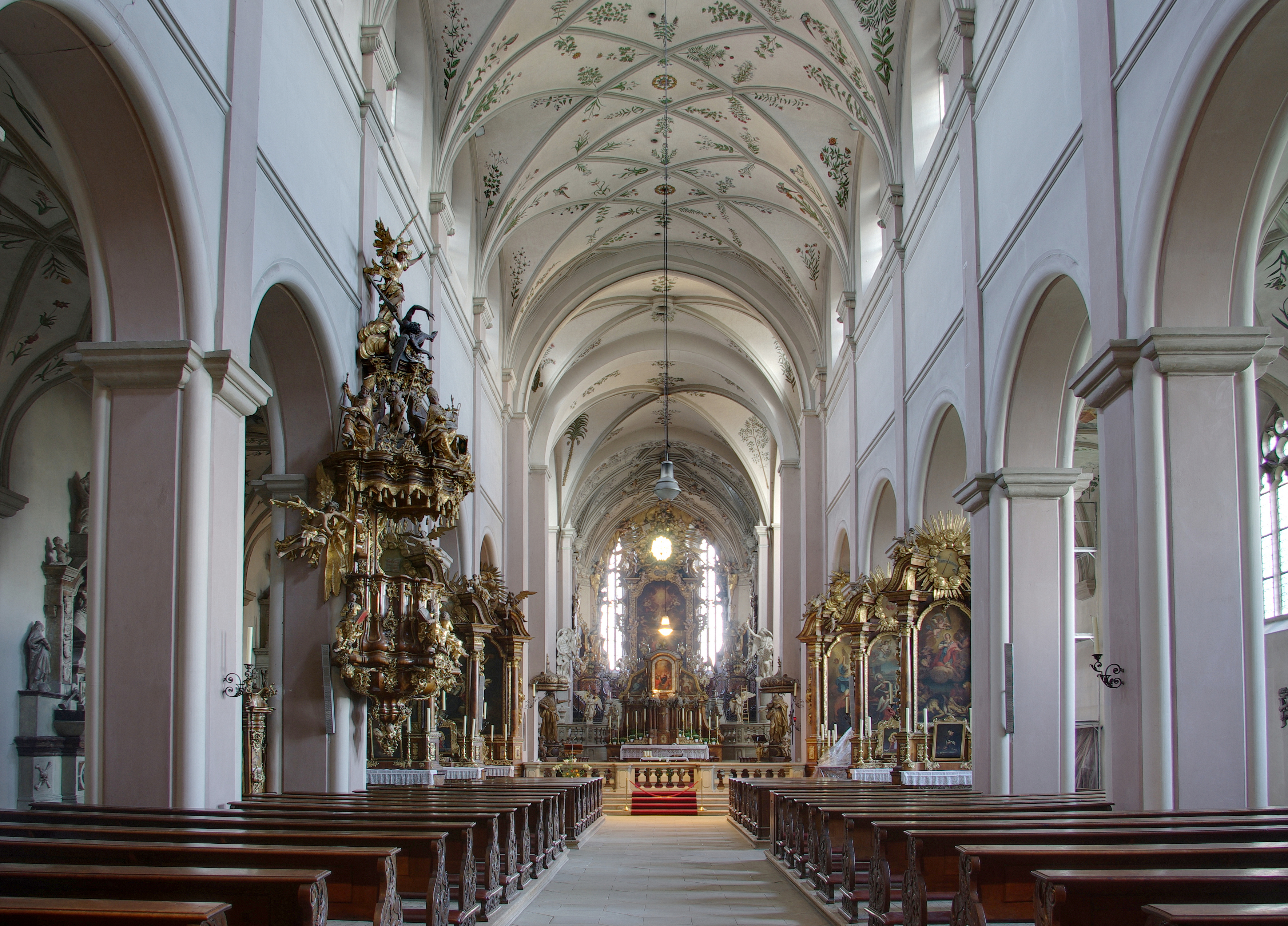 Inside view of the St mickael church in Bamberg, Bavaria, Germany.